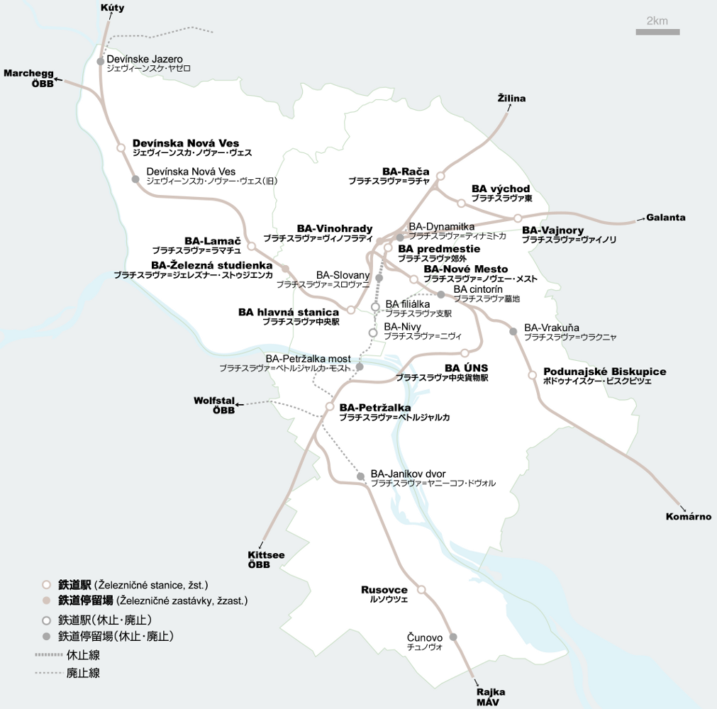 Location map of Železničná stanica and zastávky in Bratislava city area with Japanese language